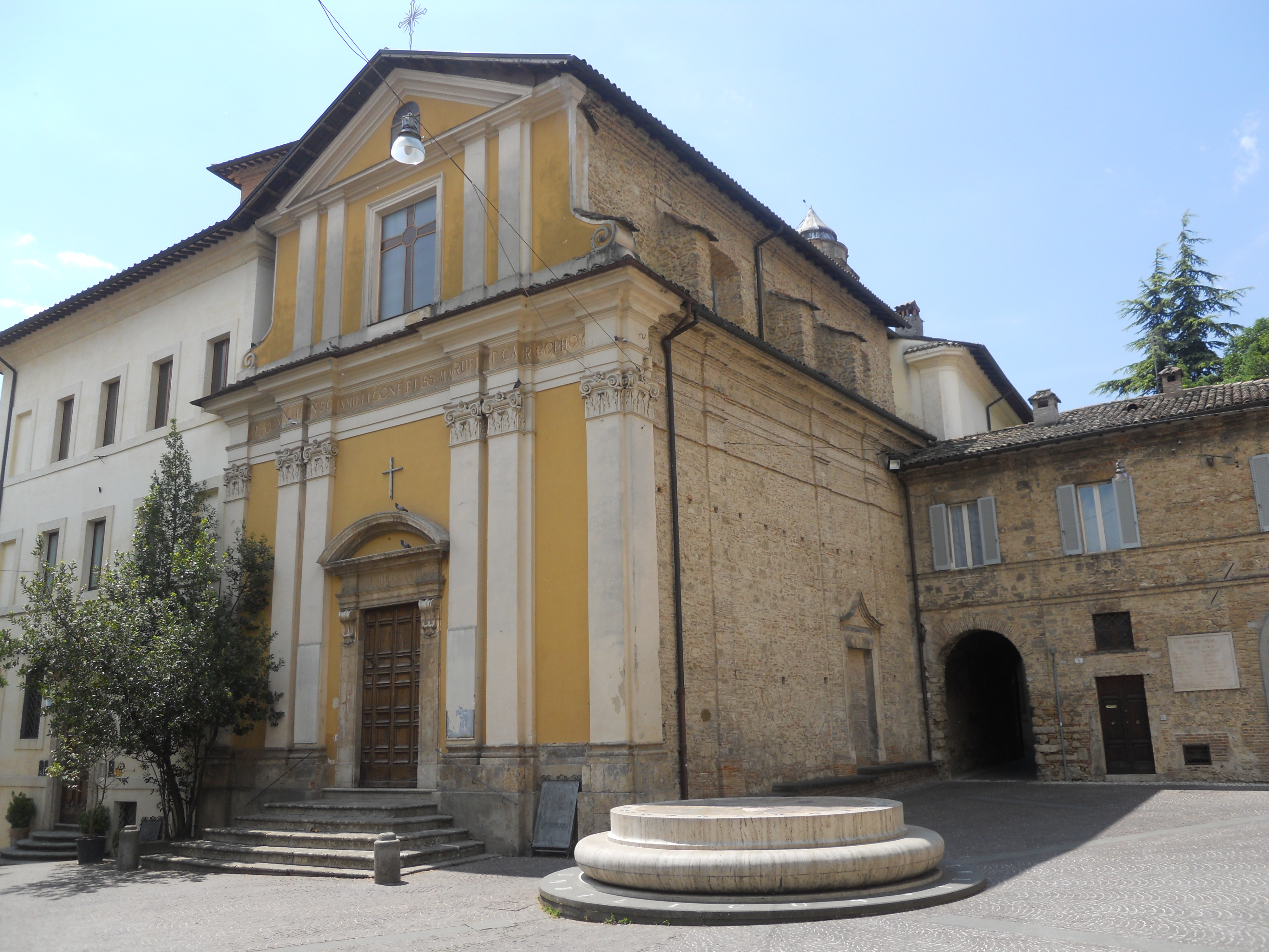 St. Rufo Church - Rieti, Italy